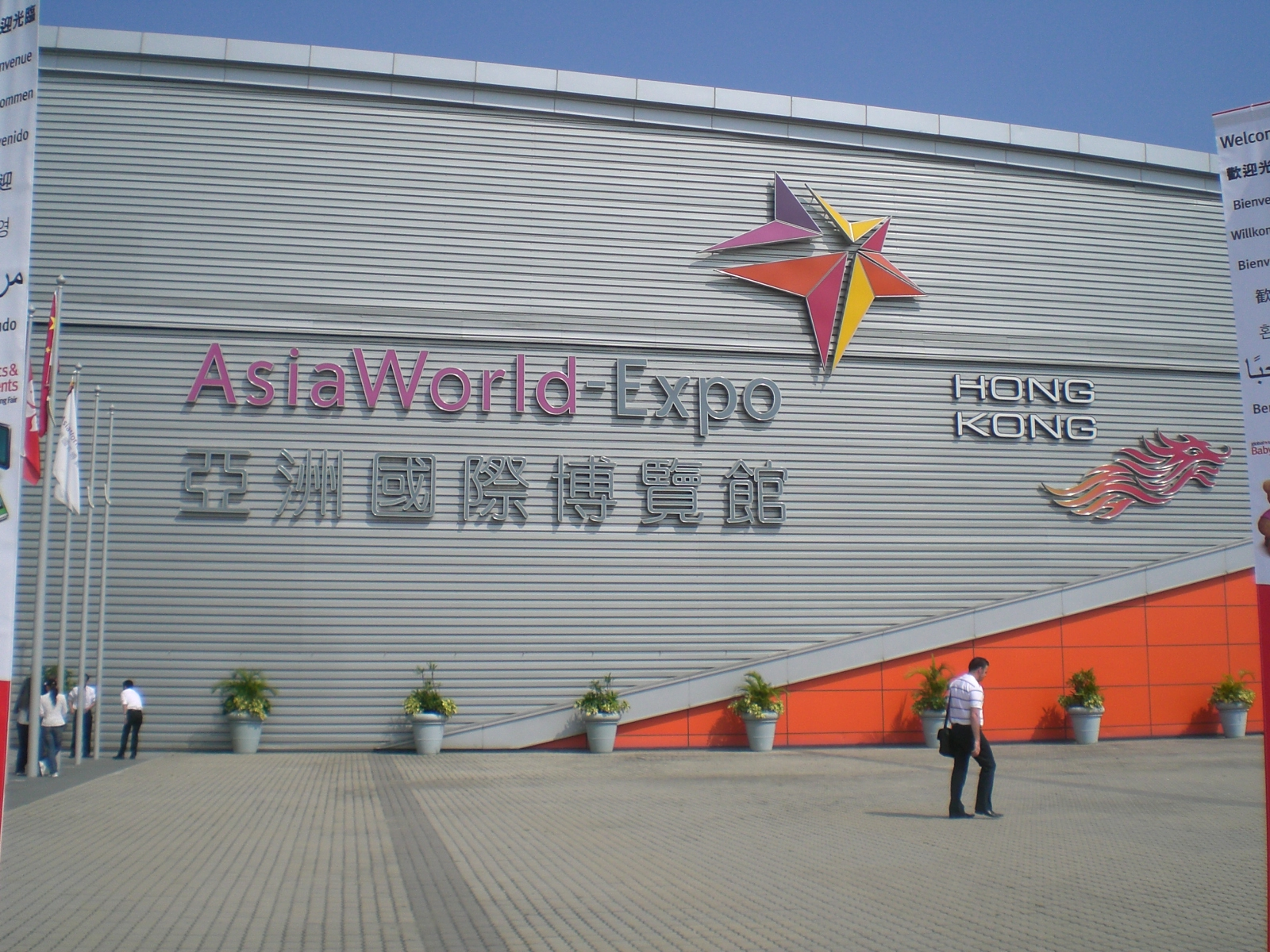 亞洲國際博覽館飛龍標誌